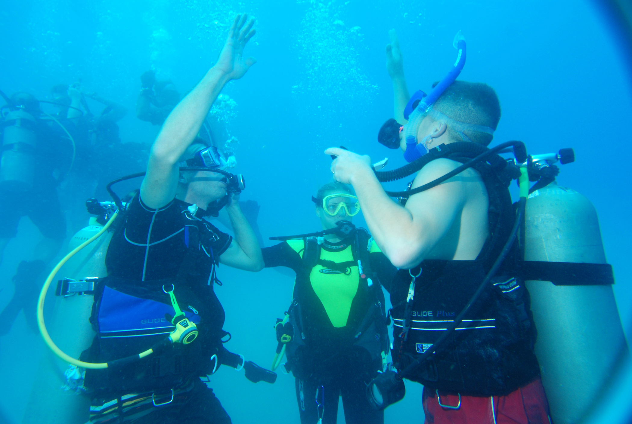 Sarah Cleveland (middle), a Joint Task Force Guantanamo Trooper, instructs two students on the correct techniques for safely ascending back to the surface at U.S. Naval Station Guantanamo Bay's Phillips Dive Park, Aug. 18. Cleveland, along with three other open-water scuba instructors, was certified in October. JTF Guantanamo conducts safe, humane, legal and transparent care and custody of detained enemy combatants, including those convicted by military commission and those ordered released. The JTF conducts intelligence collection, analysis and dissemination for the protection of detainees and personnel working in JTF Guantanamo facilities and in support of the Global War on Terror. JTF Guantanamo provides support to the Office of Military Commissions, to law enforcement and to war crimes investigations. The JTF conducts planning for and, on order, responds to Caribbean mass migration operations.